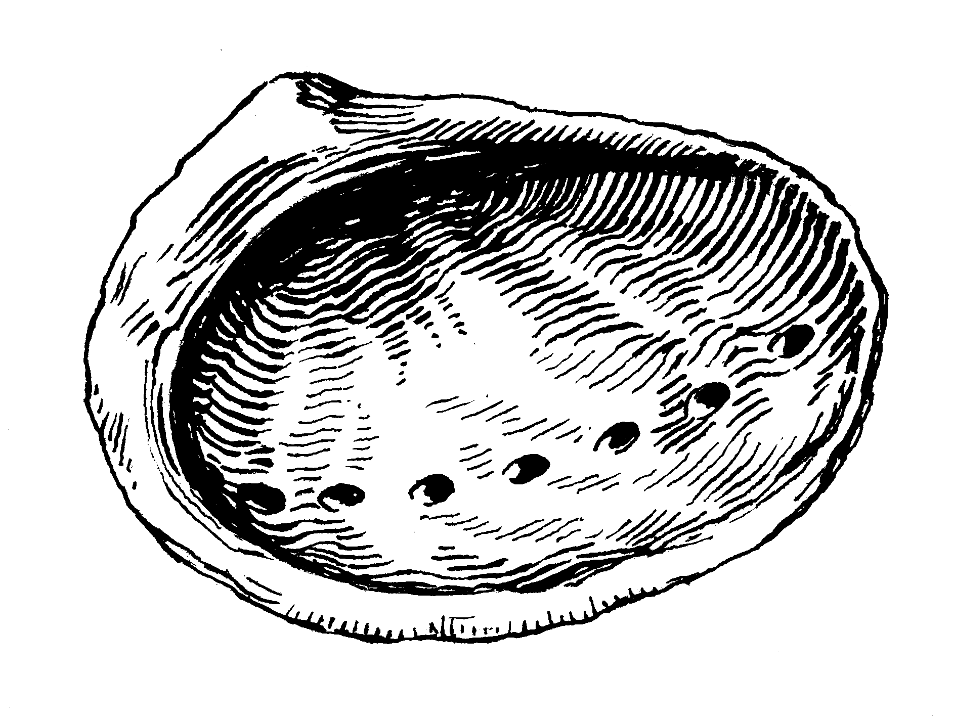 Line art drawing of an abalone